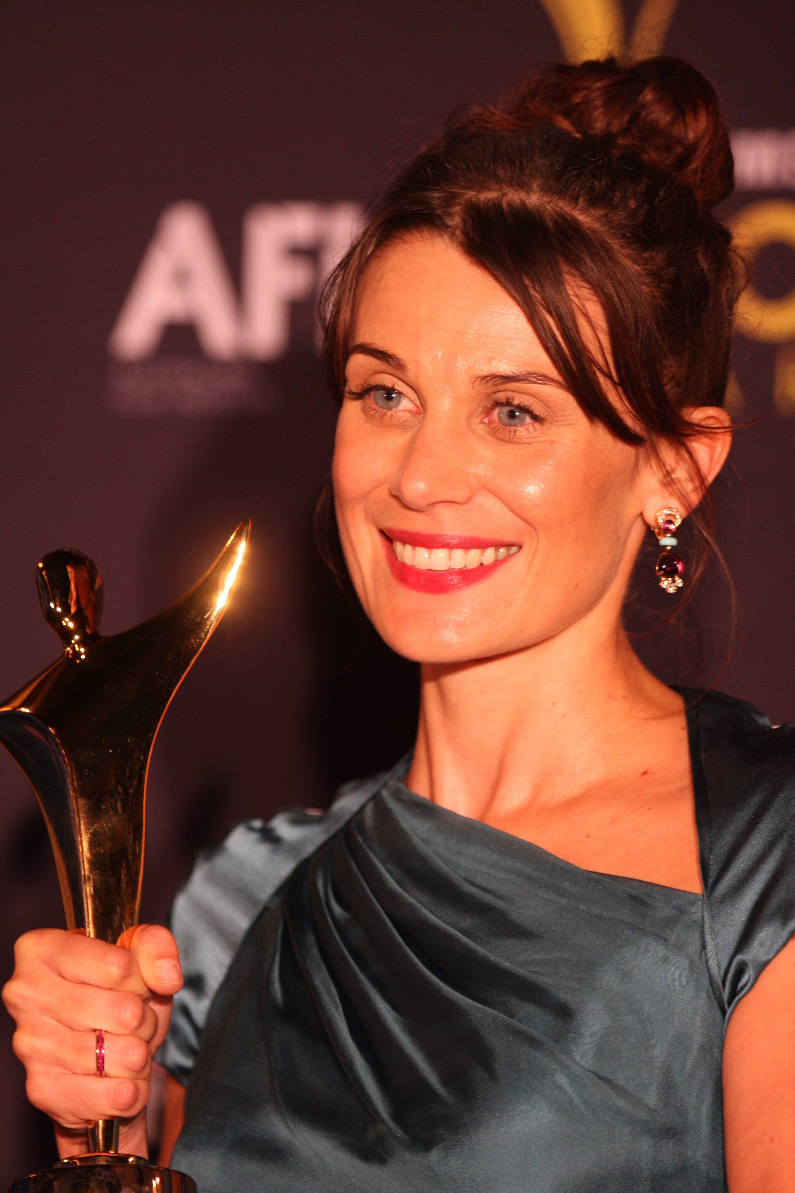 Australian actress Diana Glenn at the AACTA award 2012, Sydney, Australia